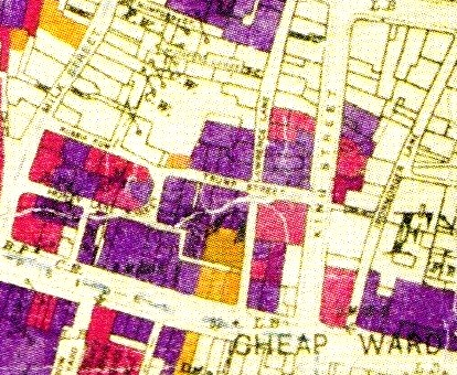 City_of_London_Bomb_Damage_Map Trump Street & Russia Row.